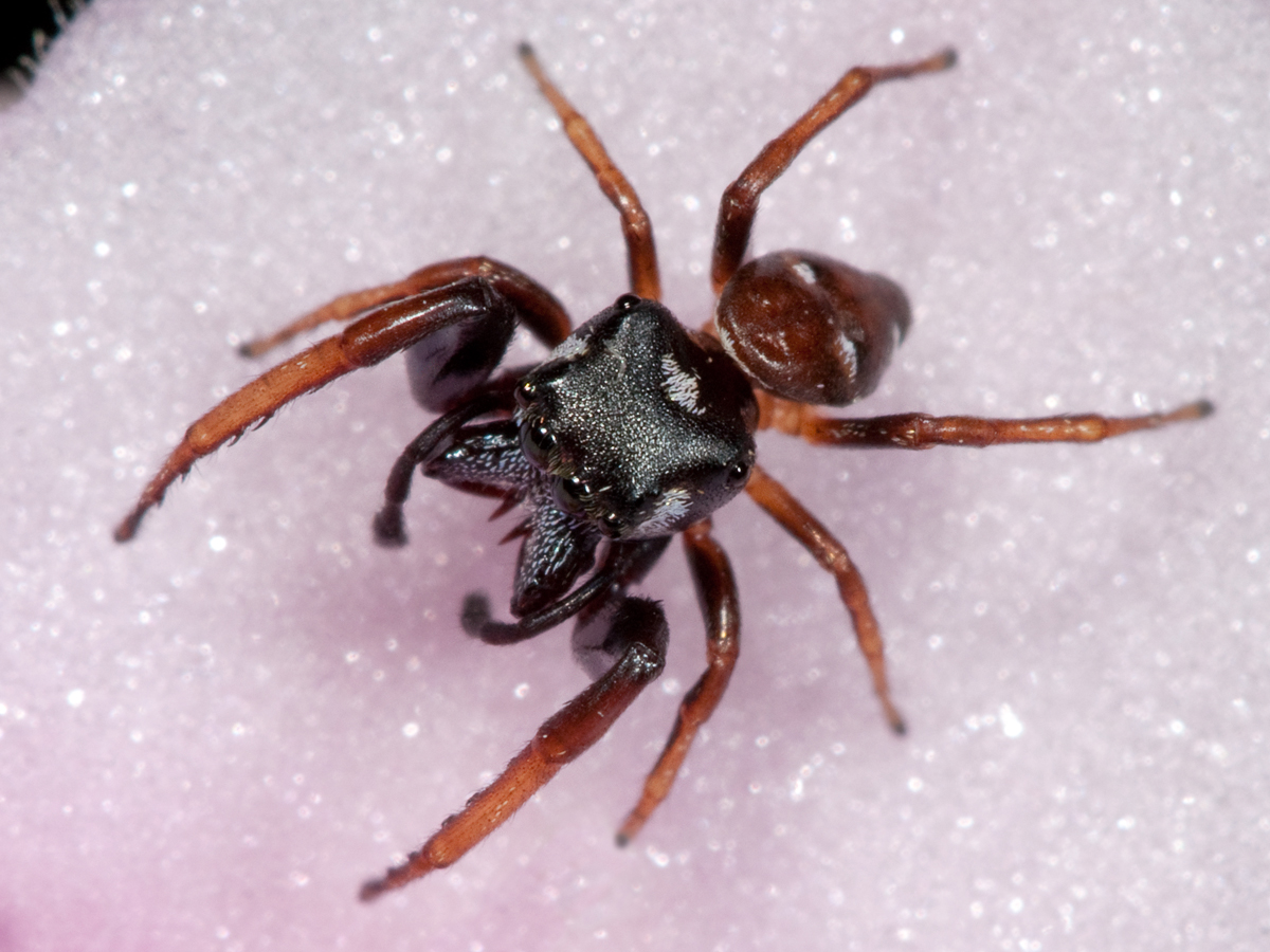 Adult male Zygoballus sexpunctatus jumping spider on a flower petal. Body length: 3.5 mm.